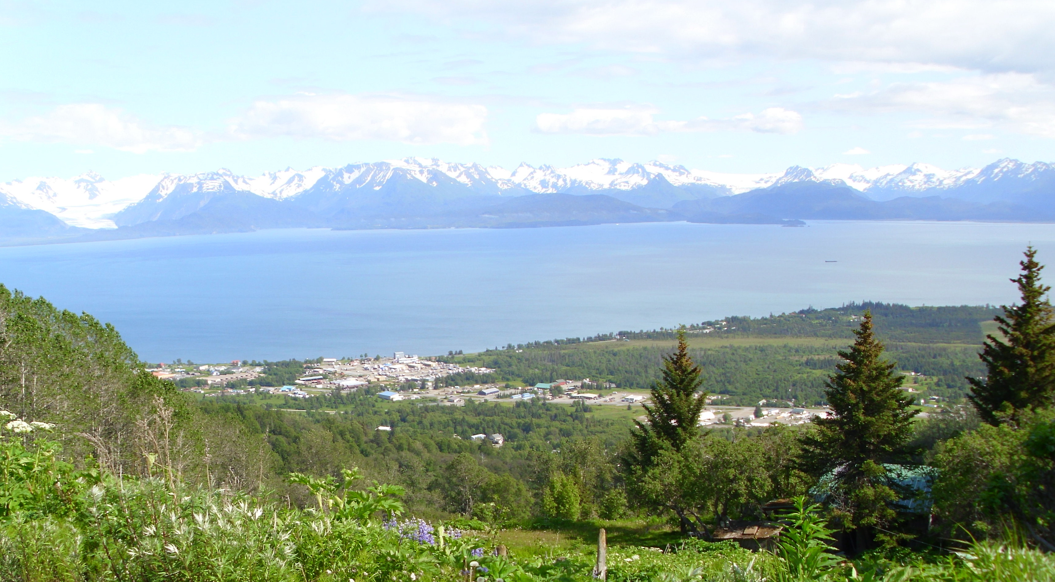 Kachemak City and Miller Landing, Alaska, seen from hilltop at about 1,000 ft